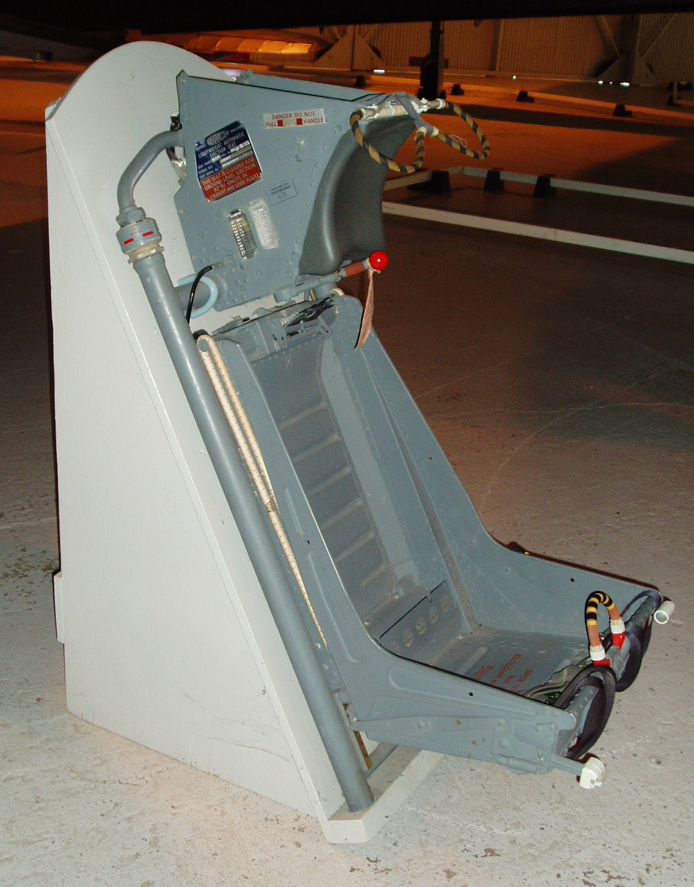 Folland lightweight automatic ejection seat from a Folland Gnat. Photographed at the Royal Air Force Museum Cosford